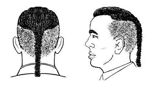 Modernized traditional/spiritual hairstyle for married Abenaki Man